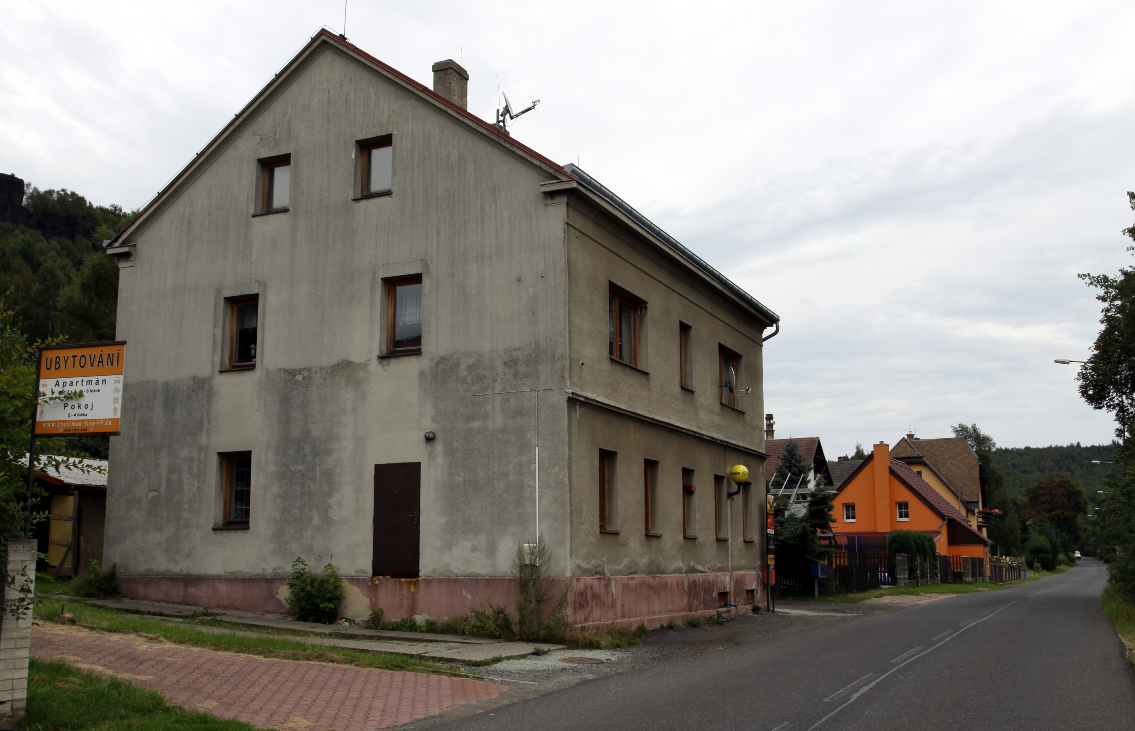 Post in Tisá village in Ústí nad Labem District, Czech Republic